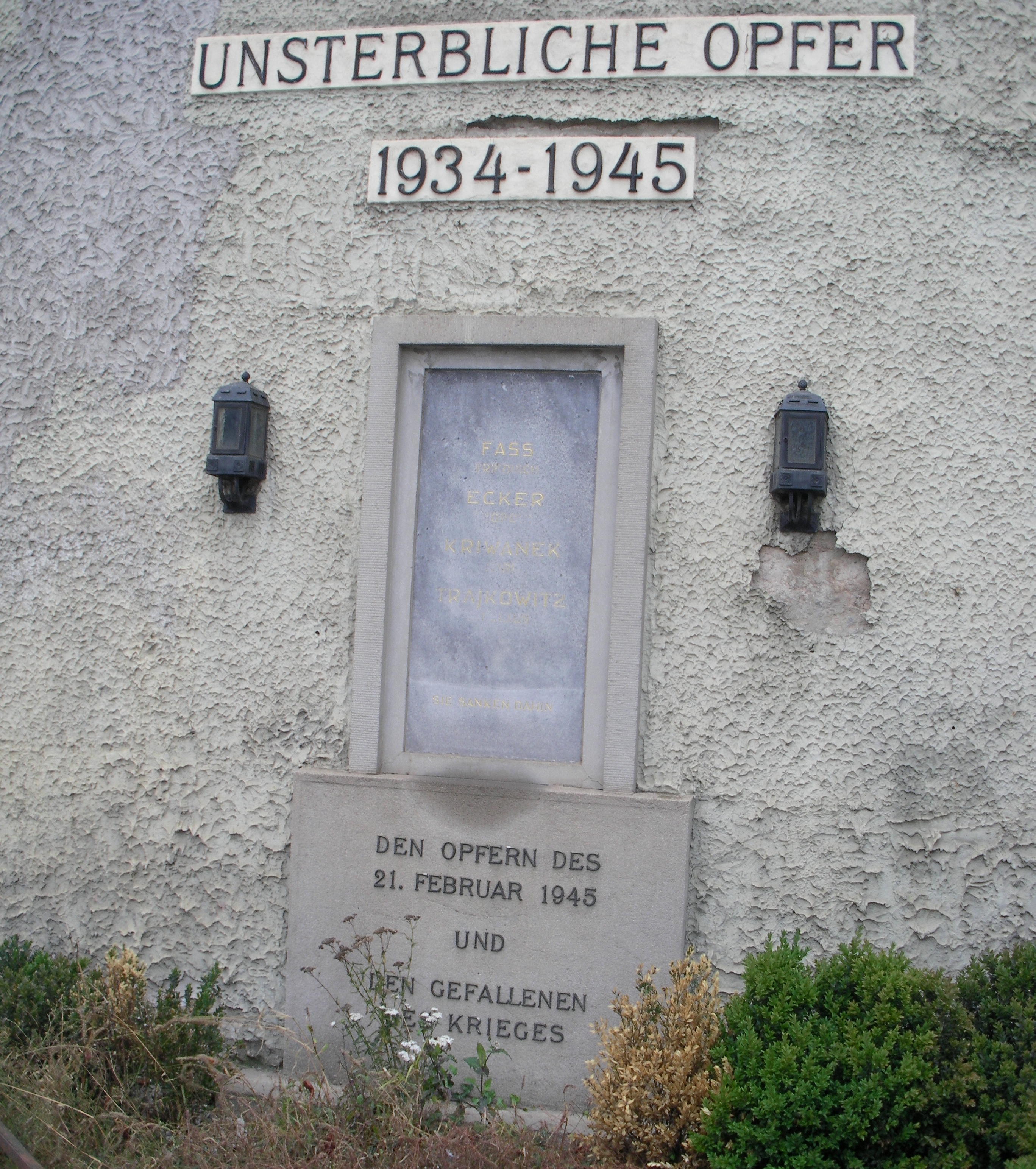 War memorials